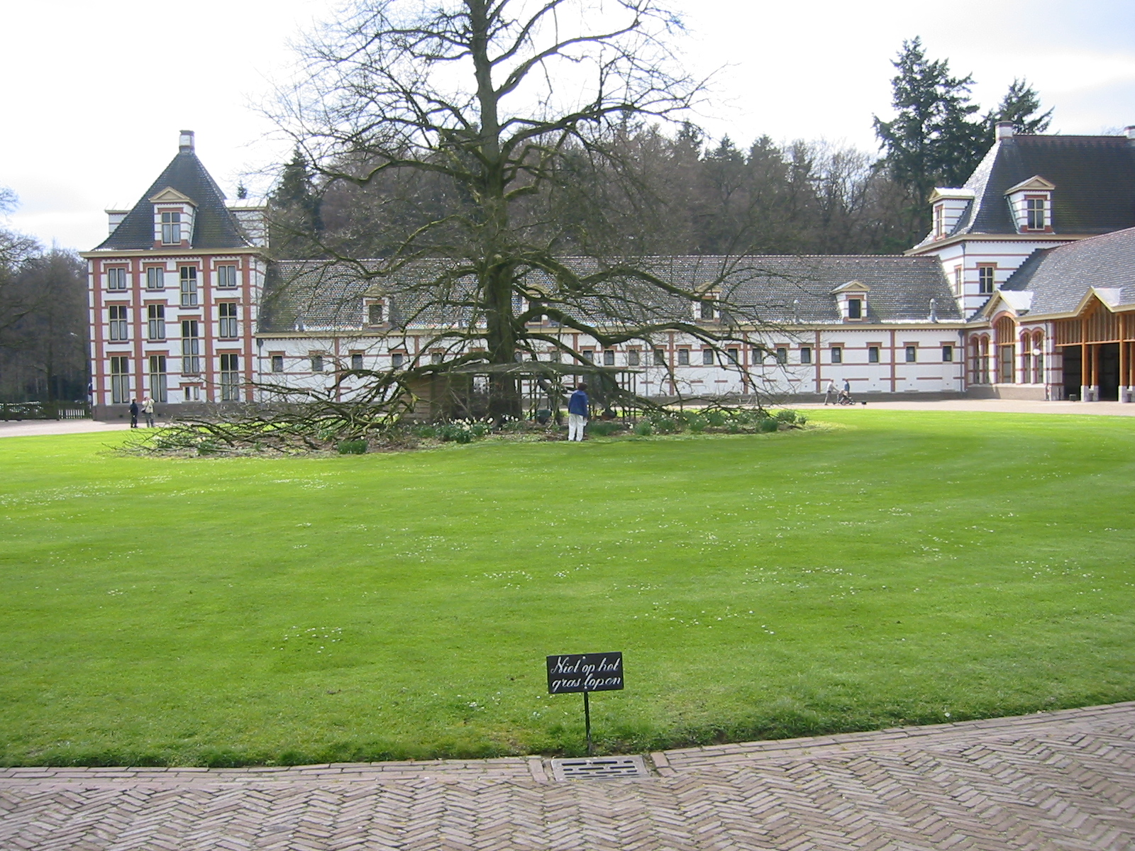 Castle "Het Loo" by Apeldoorn, The Netherlands